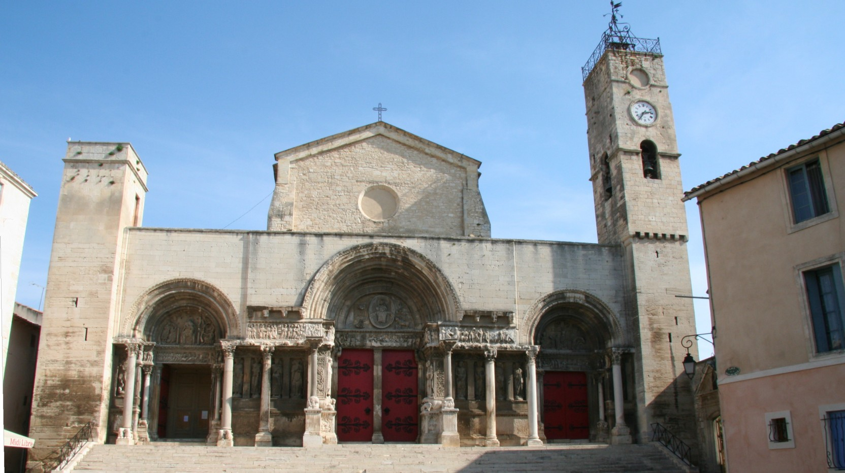 St Gilles - Church, October 2006